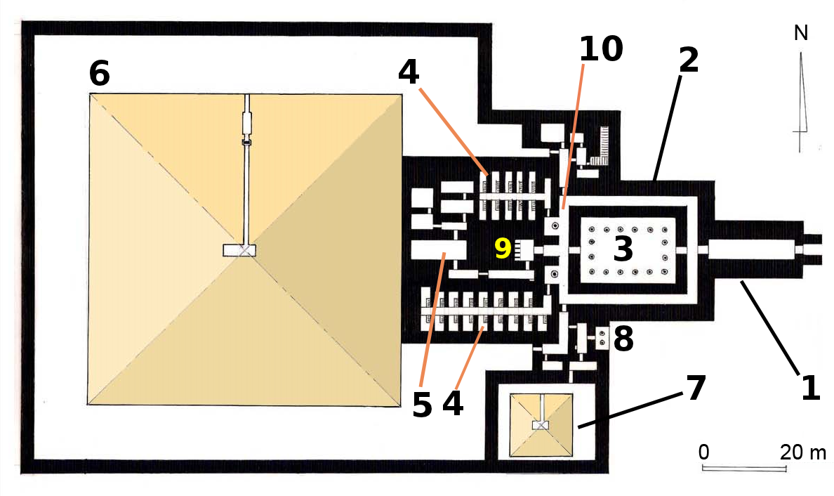 Map of Sahure's pyramid complex. 1) Entrance hall, 2) Closed corridor, 3) Pillared courtyard, 4) Magazine rooms, 5) Sacrificial chapel, 6) Main pyramid, 7) Cult Pyramid}, 8) Side entrance, 9) Five niches chapel, 10) Transverse corridor